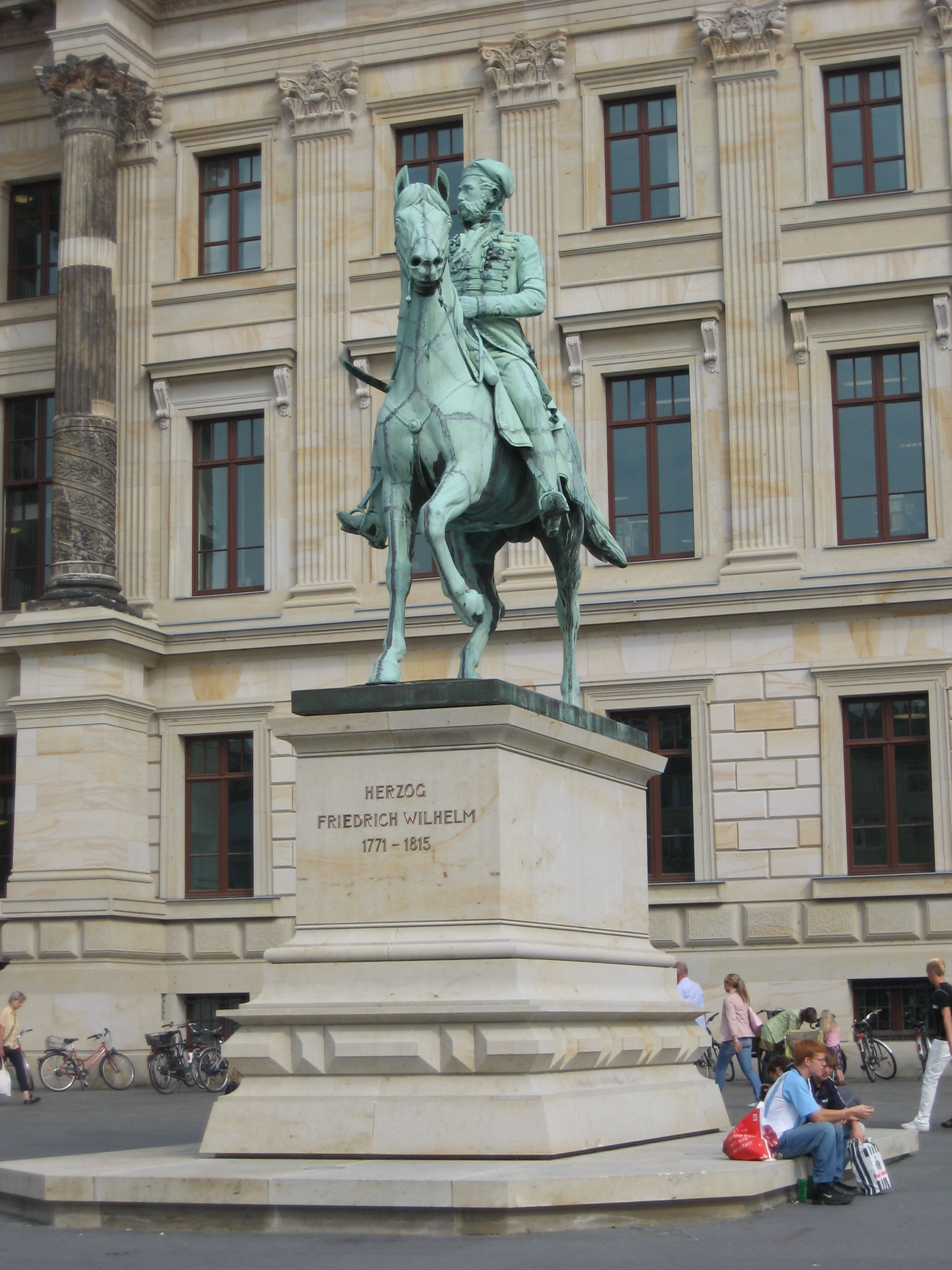 Sculpture of Frederick William, Duke of Brunswick and Lüneburg in front of the Braunschweiger Schloss.